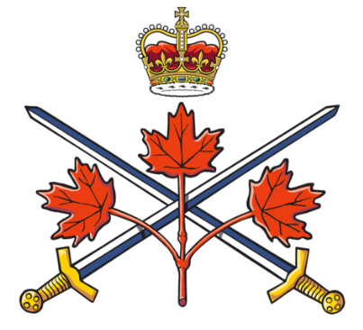 Badge of the Canadian Army, dating back to WWII and readopted in 2013.